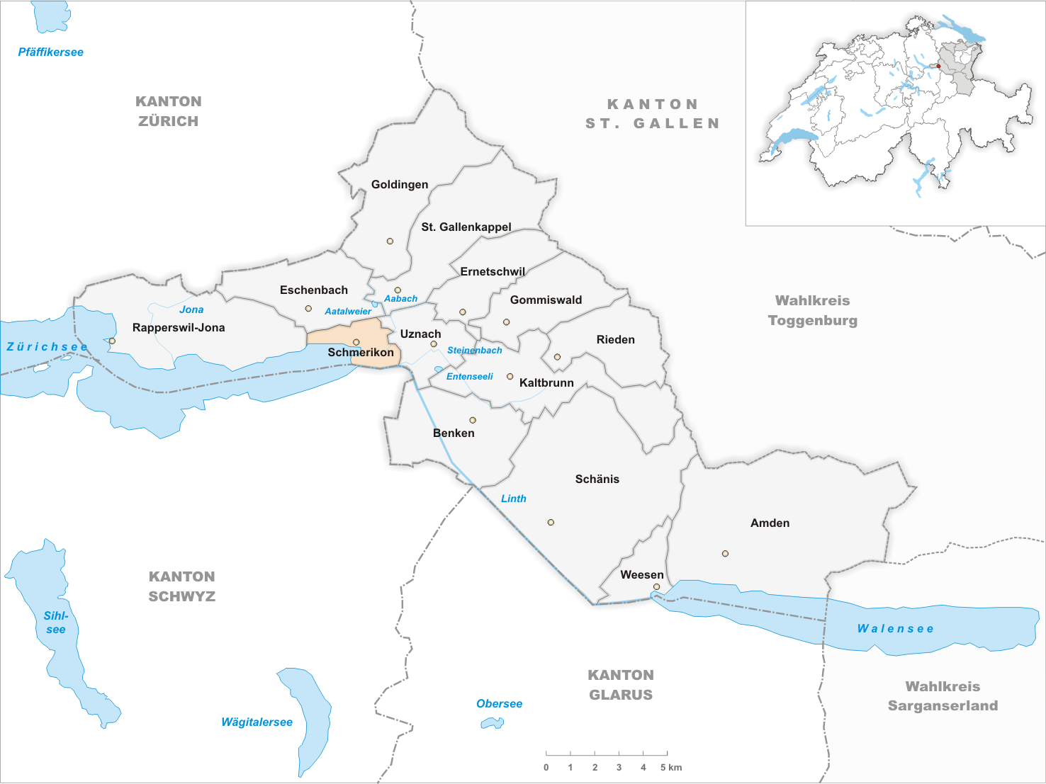 Municipality Schmerikon